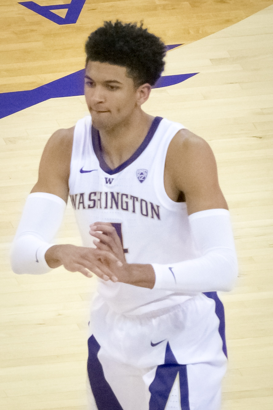 Matisse Thybulle, Guard for the Washington Huskies